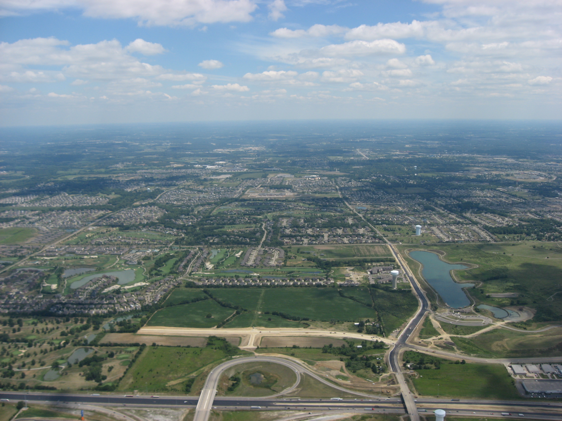 Aerial view of Mason, a city in Warren County, Ohio, United States. Interstate 75 is visible along the bottom of the picture; its major interchange in the middle is the eastern end of State Route 129. Picture taken from a Diamond Eclipse light airplane at an altitude of 3,060 feet MSL and a bearing of approximately 95º.